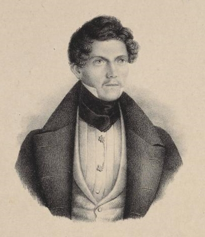 Carl Rappo (1800-1854) austrian circus artist, strong man and juggler.